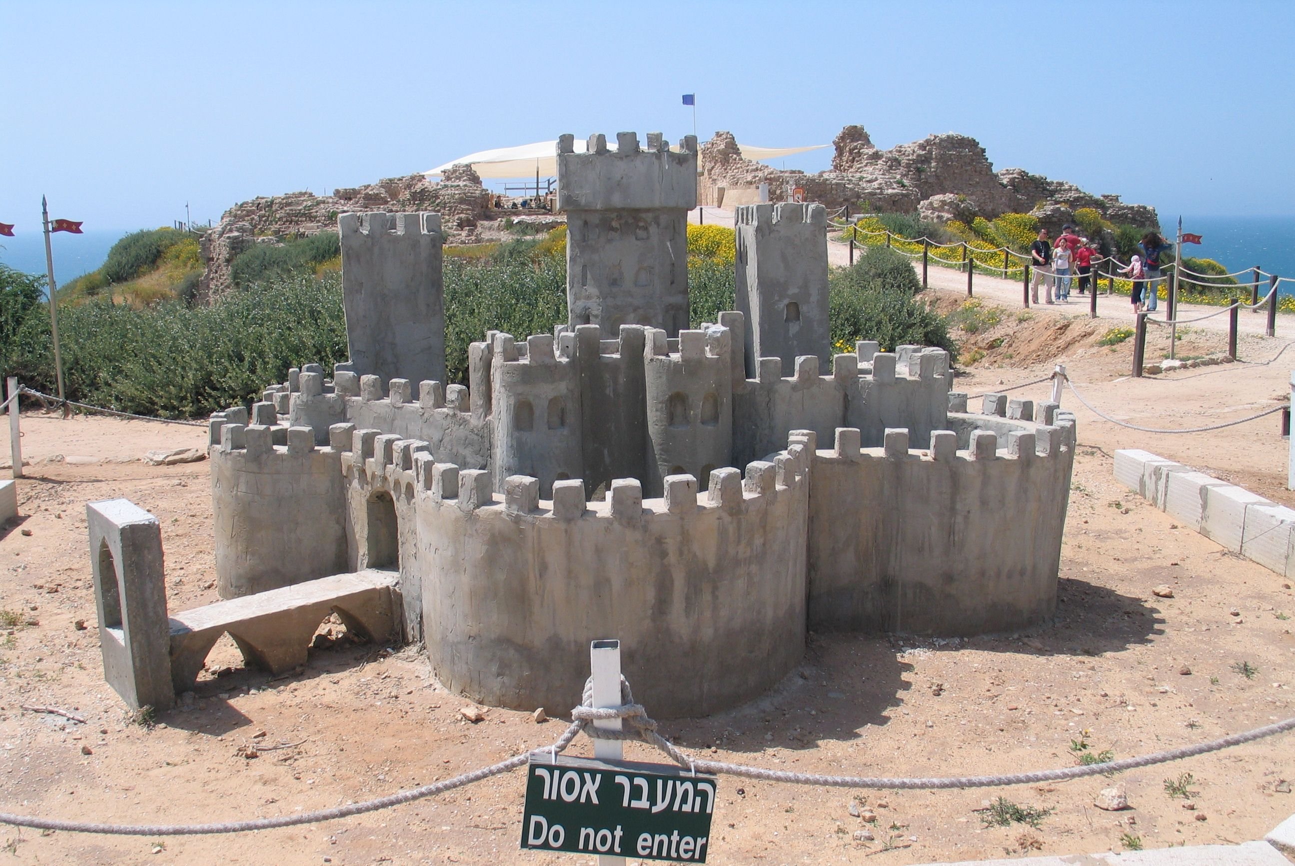 Reconstruction of the Arsuf fortress. Apollonia National Park, Israel.